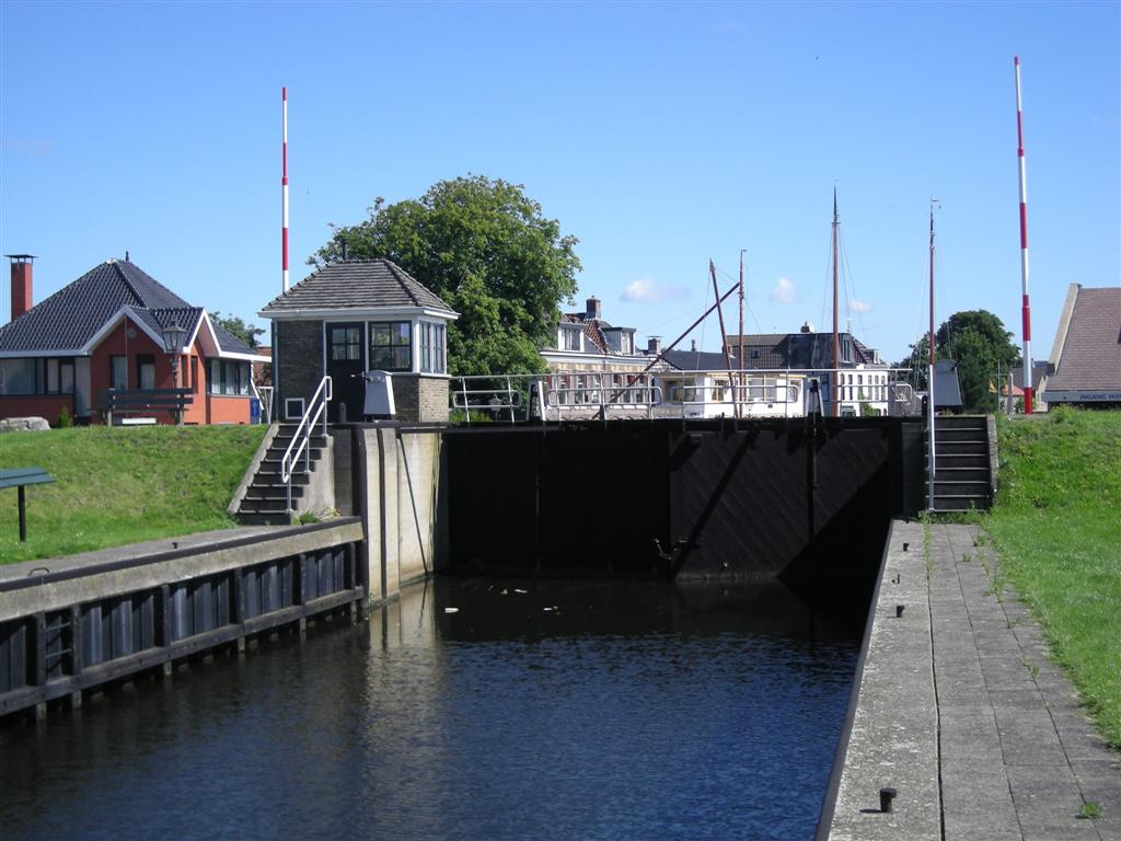 Sluice and canal lock in Lemmer